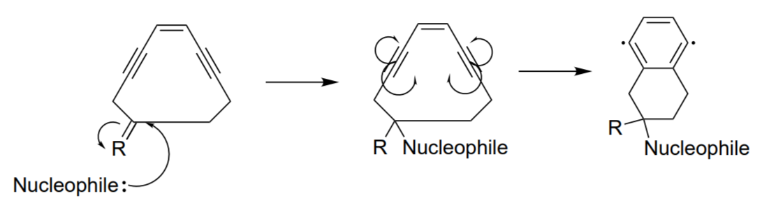 This diagram demonstrates the movement of electrons in Bergman cyclization via arrow-pushing in a generic enediyne molecule.